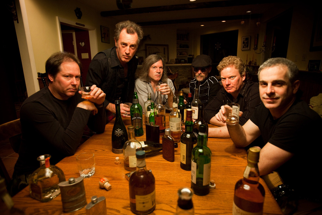 Greg, Kyf, Eric, Jimmy, Keith, and Billy of the Philadelphia-based Celtic band, Barleyjuice.